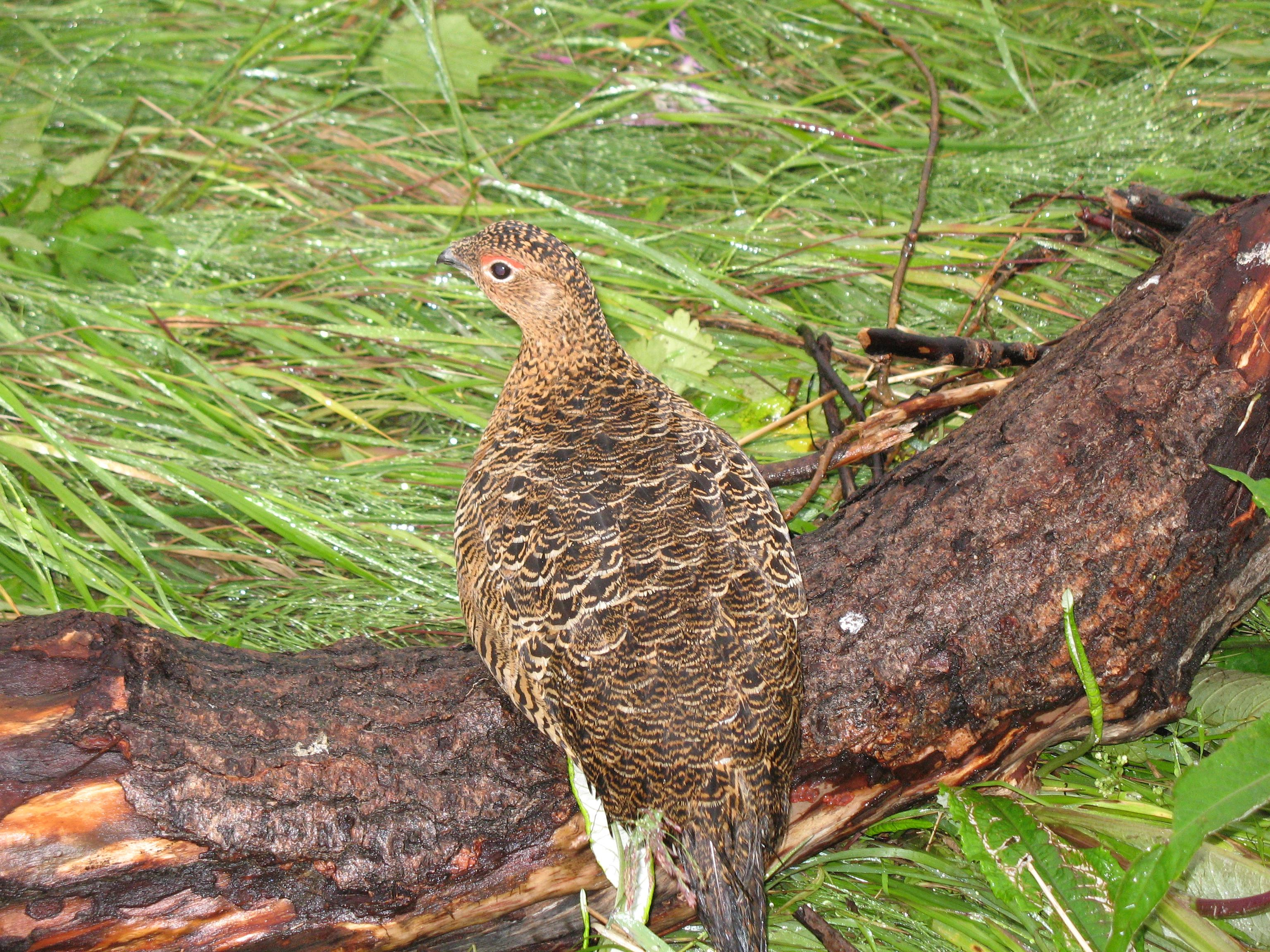 Lagopus lagopus, female; near Saranpaul in the northeast Urals, Khanty-Mantsiya Autonomous Okrug, Russia